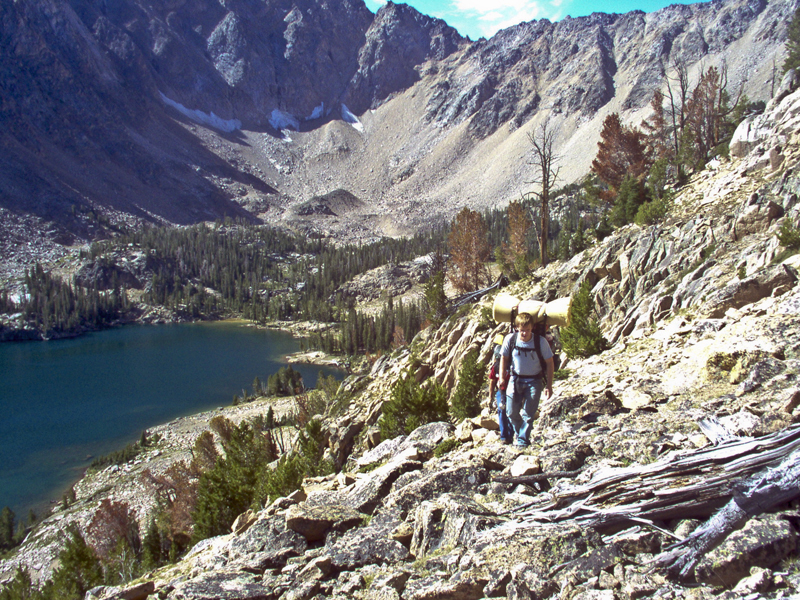 Taking while hiking August 2007.